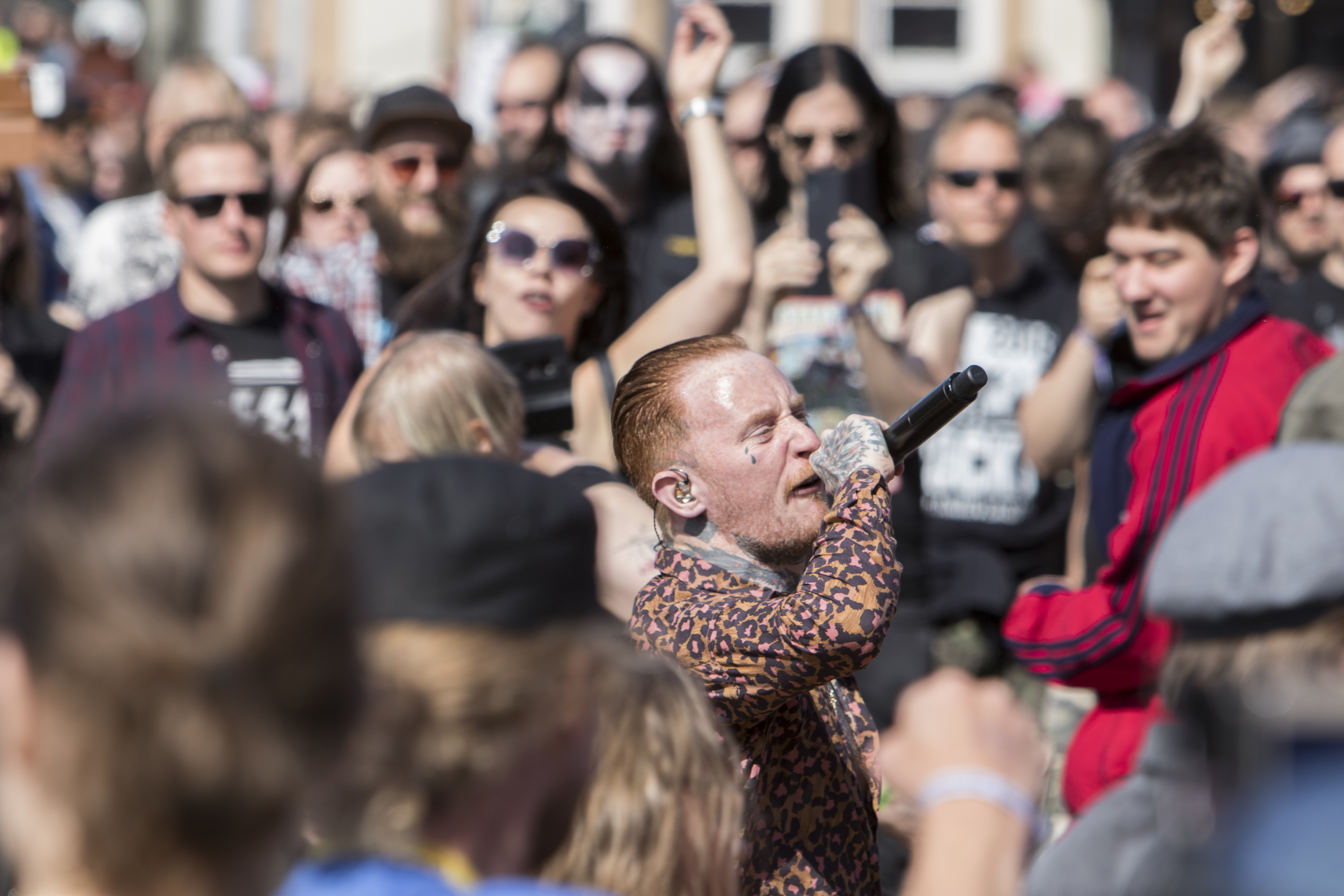 Frank Carter & The Rattlesnakes at Tuska Open Air Metal Festival 2019 in Helsinki, Finland (Kalasatama)